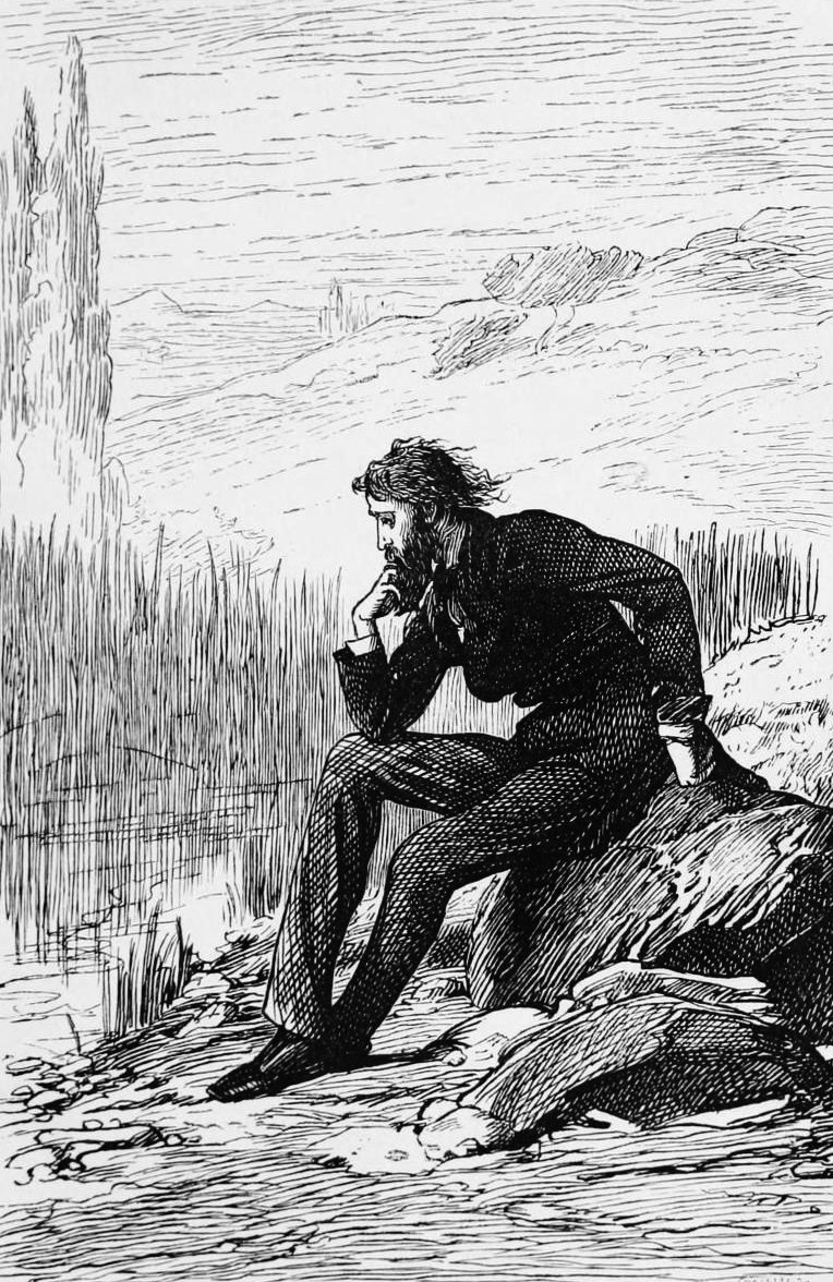 "Trevelyan at Casalunga", illustration to He Knew He Was Right by Trollope drawn by Marcus Stone